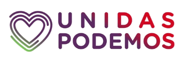 Unidas Podemos logo 2019.